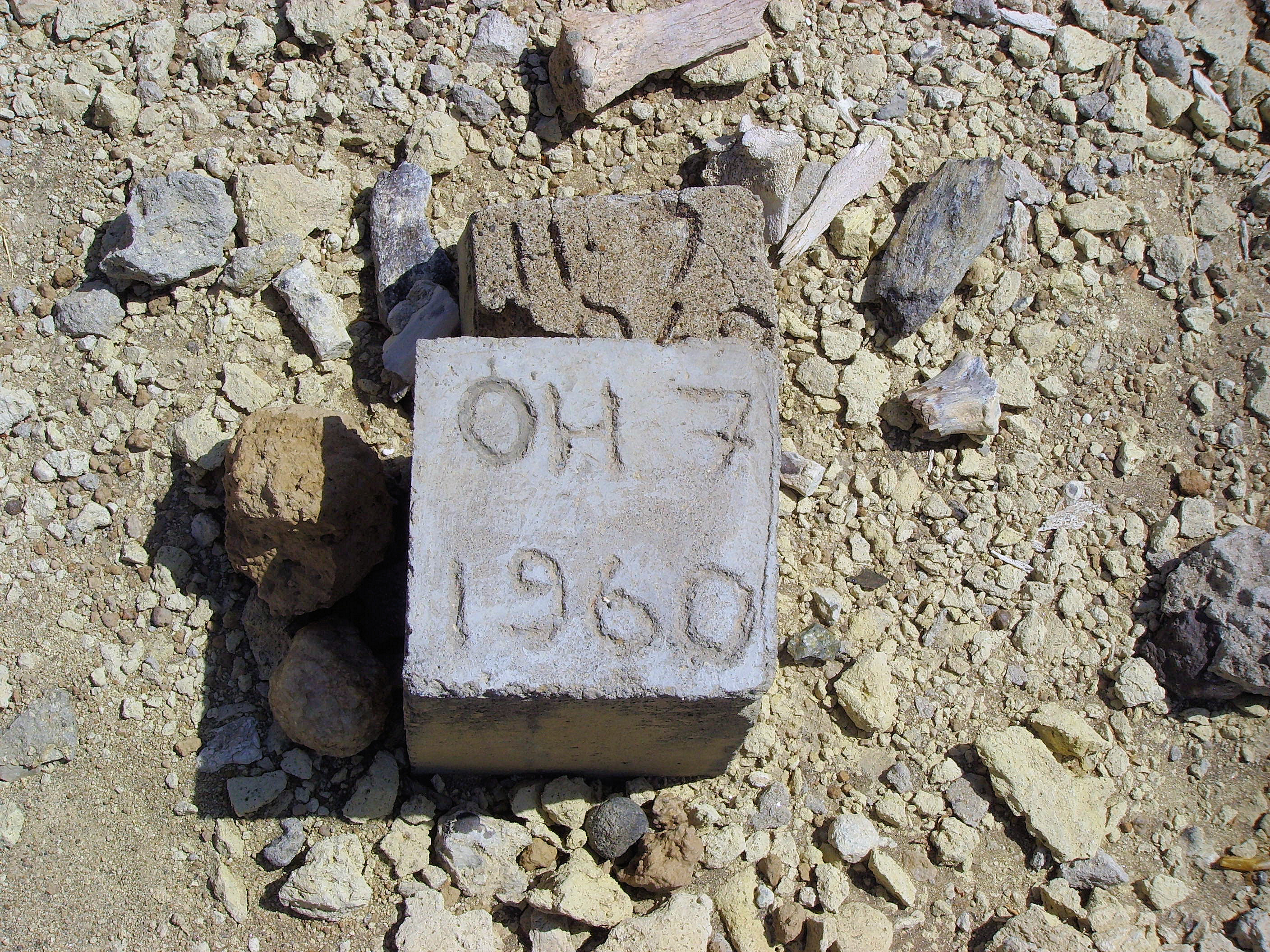 Memorial stone in Tanzania at the site of the fossil OH 7, holotype of Homo habilis